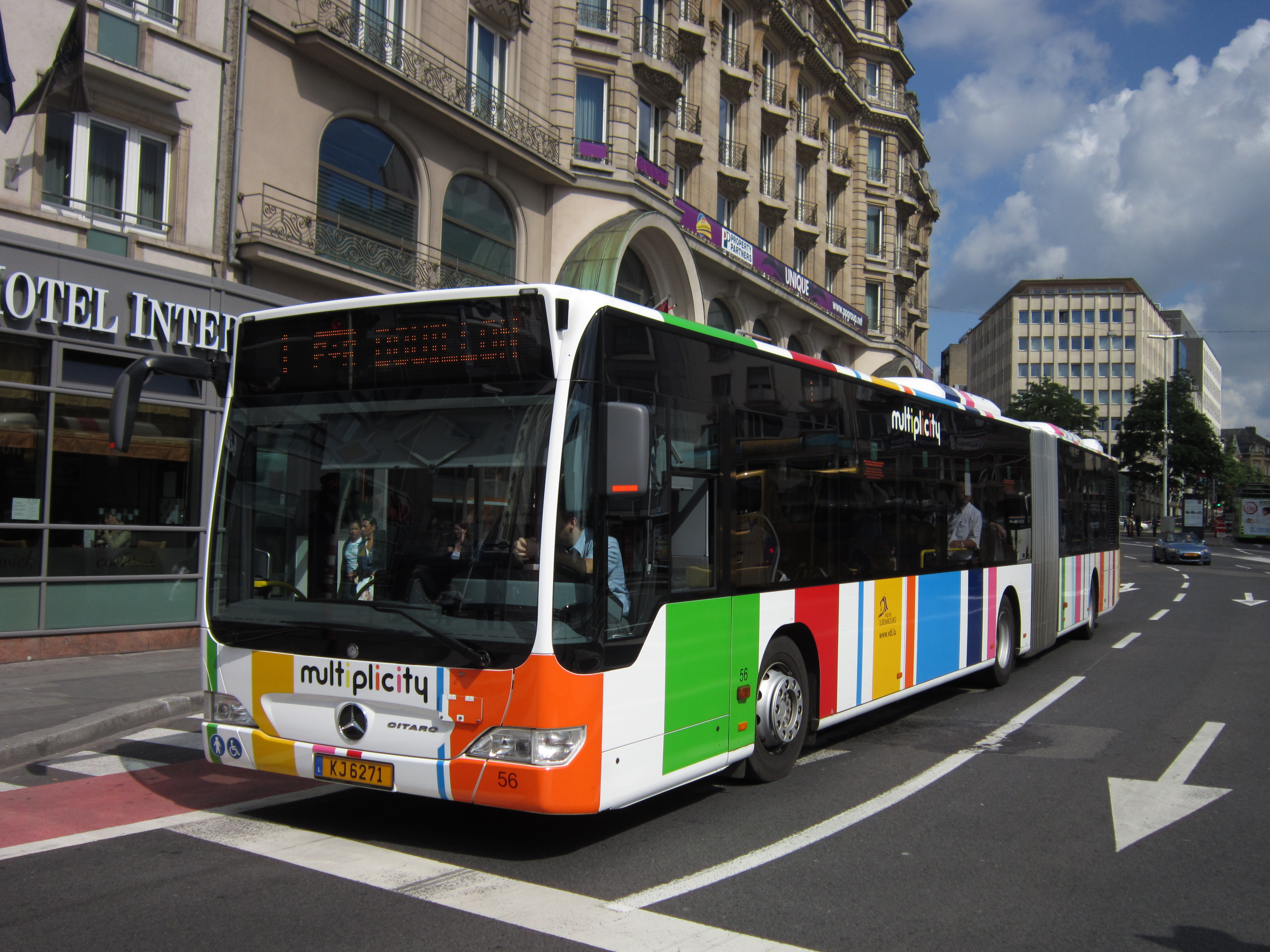 Mercedes-Benz Citaro G on the route n°1 in Luxembourg.